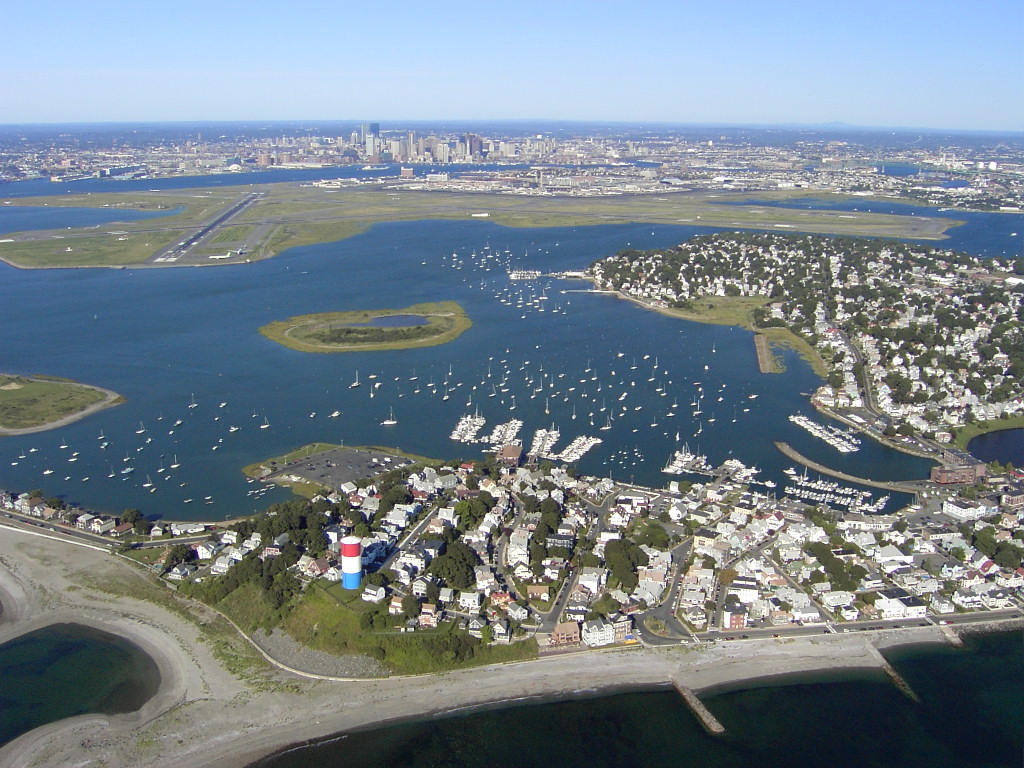 View of Winthrop, Massachusetts from the northeast, with Logan International Airport and the Boston skyline in the background. A causeway of the Boston, Revere Beach, & Lynn Railroad is visible parallel to the shore in the right center of the image.